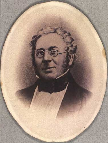 Hans Ditlev Lützhøft (1798-1858), Danish merchant, estate owner, and politician, MP